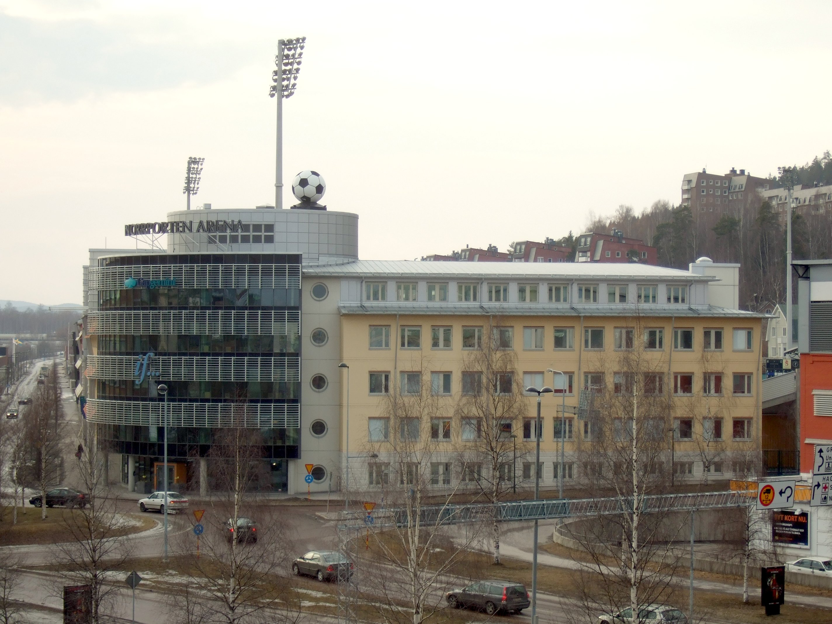 Norrporten Arena (view from east), Sundsvall, Sweden